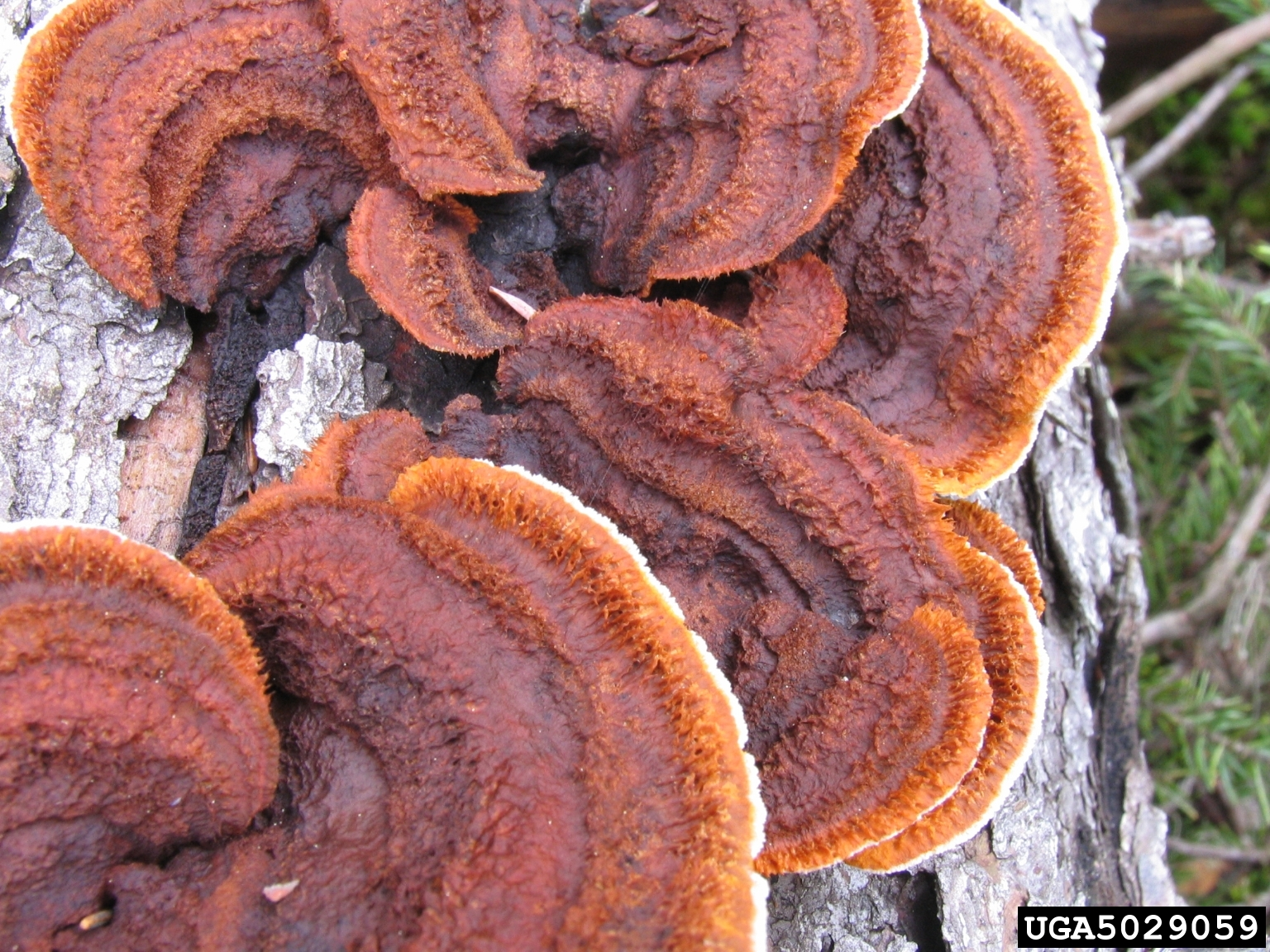 Fruiting bodies of the rusty gilled polypore Gloeophyllum sepiarium; family Gloeophyllaceae